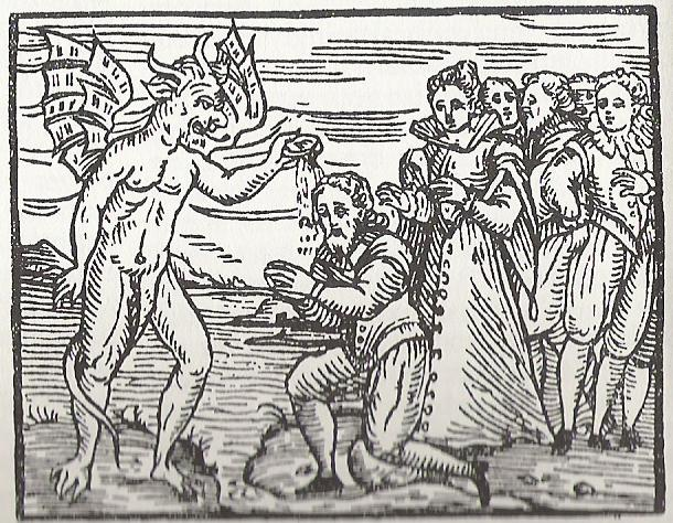 Wood Engraving 2 from the Compendium Maleficarum